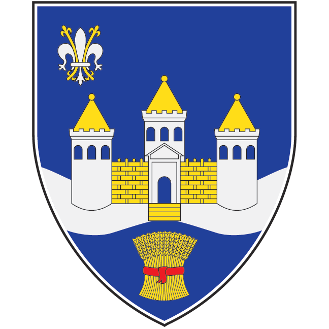 Small Coat of Arms of the city and municipality of Šabac in Serbia